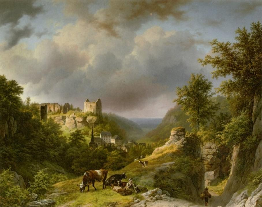 Barend Cornelis Koekkoek: Vue sur le château de Larochette.